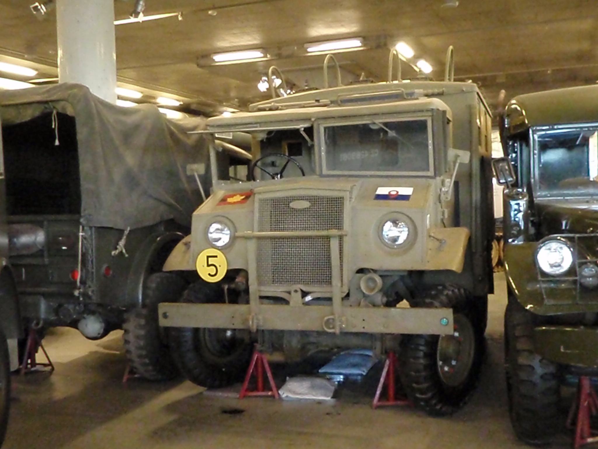 This photograph illustrates clearly that the Canadian Military Pattern (CMP) trucks were manufactured with the driver's position on the "wrong" side, in opposition to Canadian traditions, but in accord with British traditions since the British were the primary customers. It also illustrates the primitive form of ventilation obtained by having the two windshield windows mounted on hinges and slides. I have taken this picture with my camera and I am placing it in the public domain.